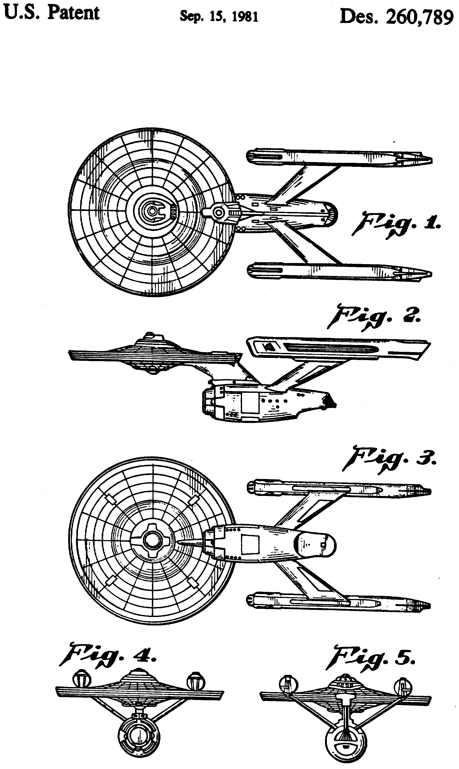 Art submitted by Andrew Probert to the US Patent and Trade Office in his patent filing for a "toy starship" in the likeness of the USS Enterprise.